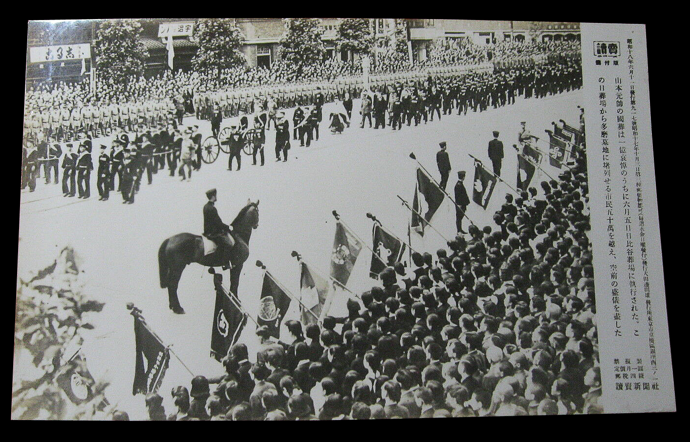 State Funeral for Marshal-admiral Isoroku Yamamoto of the Imperial Japanese Navy on Saturday, 5 June 1943. Yamamoto's ashes were placed alongside Admiral Tōgō Heihachirō (hero of the Russo-Japanese war in 1904–1905) in the village cemetery at Tama, near Tokyo, facing the Imperial Palace. At the time they were the only two naval men, exclusive of Imperial princes, honoured by state funerals. (